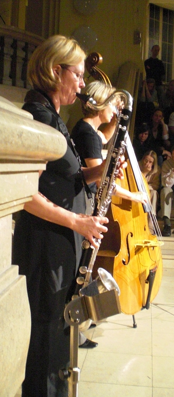 Christina Fuchs in concert during the Cologne Music Night, September 19th, 2009 at the Amtsgericht (Cologne), Germany